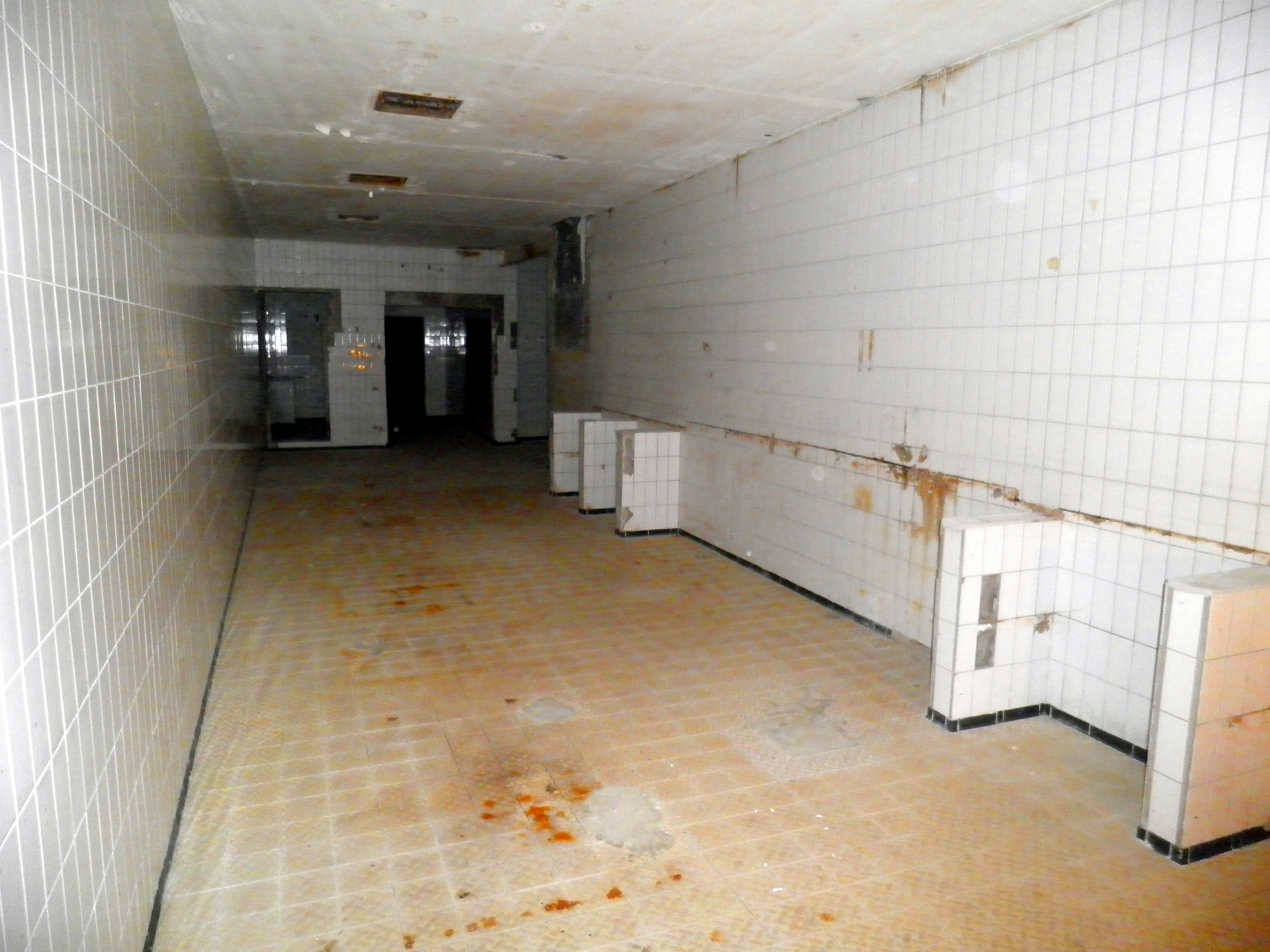 NATO headquarters Cannerberg - Kitchen